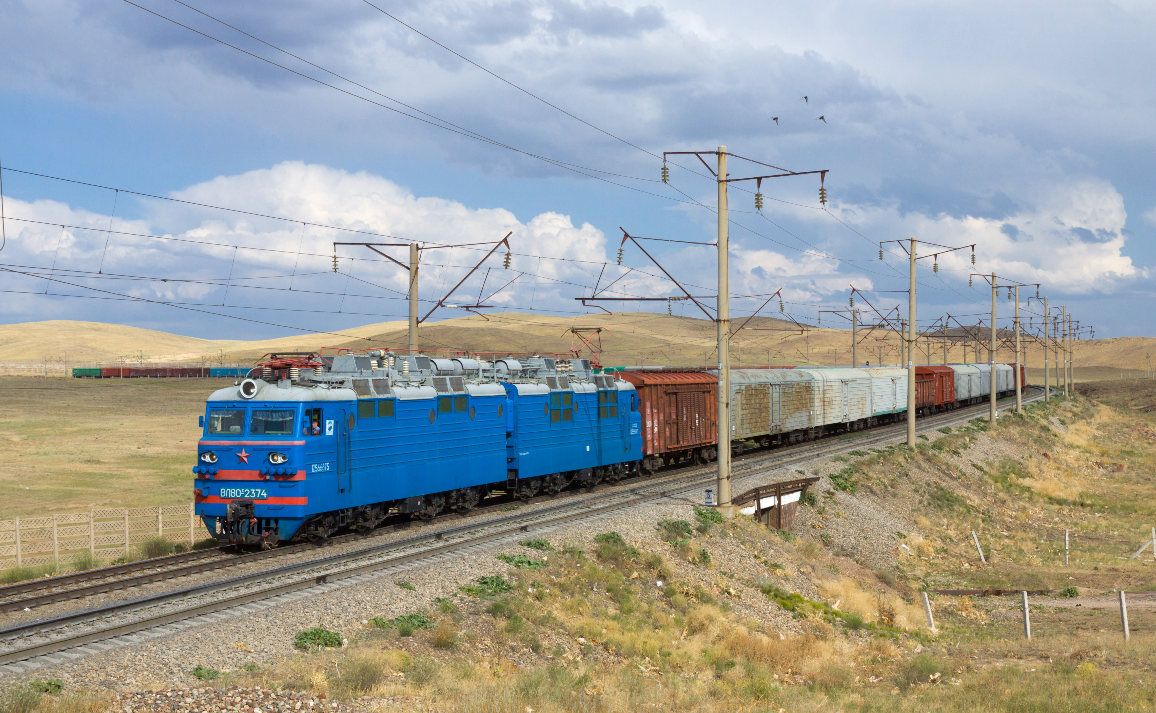 Kasachstan Temir Scholy class VL80 with a freight trein between Chokpar and Ala-Aygir, Kazakhstan